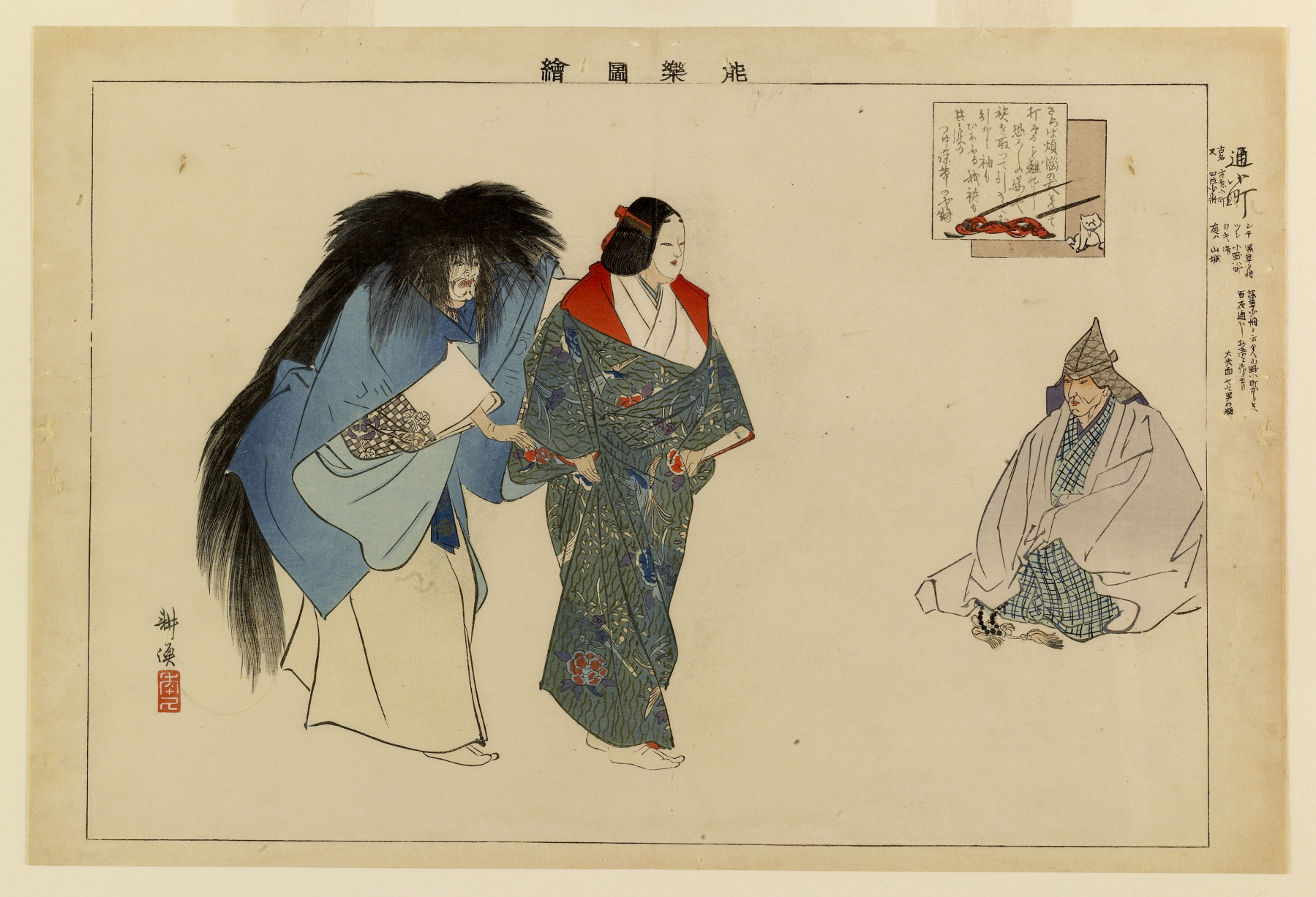 When the ghost of the great beauty and poet Ono no Komachi asks a wandering priest (right) to pray for her soul, she is held back by the ghost of a former suitor, Shii no Shosho. He had sacrificed his life in a vain effort to prove his love and cannot bear to have her leave him again. Komachi: Would you still have me suffer The tortures of hell? Shosho: Even when we suffered them together The pains were grievous, But if you alone attain The Way of the Buddha You will add to the weight I bear Yet another cloak of sorrow, Piling grief on grief.